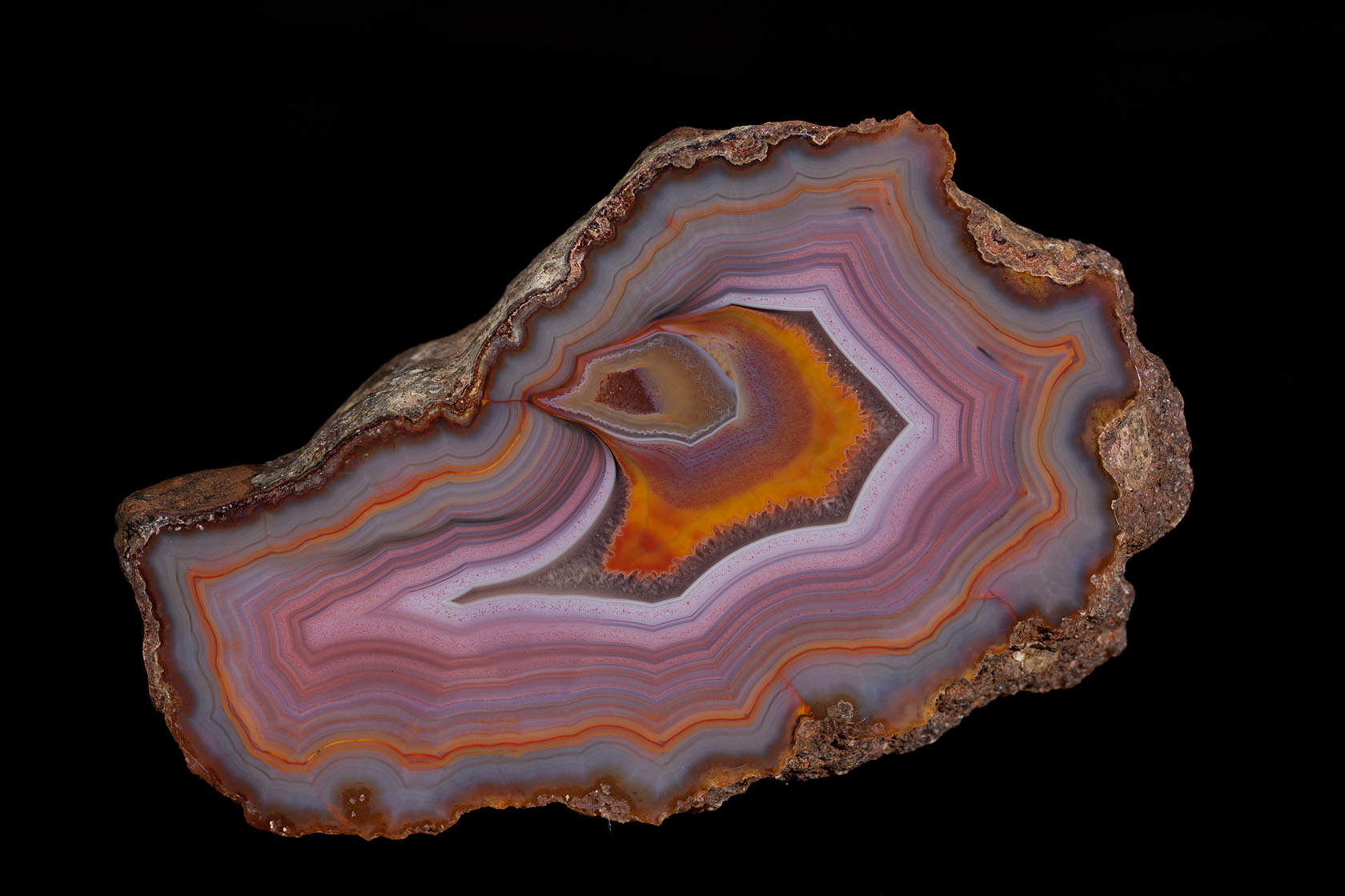 Condor agate was discover and named by Luis de los Santos in 1993 in the mountain range near San Rafael City, in Mendoza Province, Argentina.